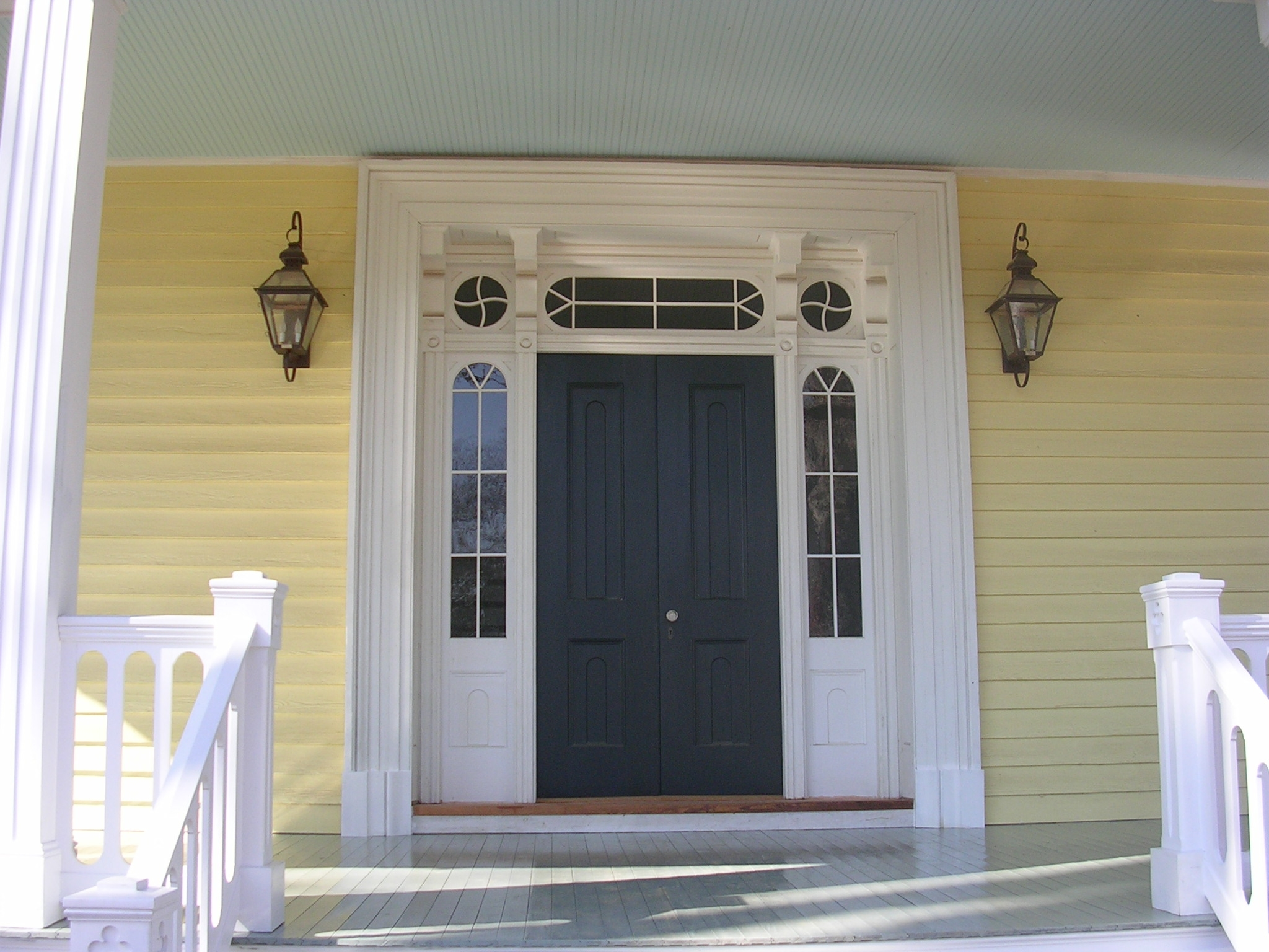 Door and entry surround, featuring typical design by Jacob W. Holt.